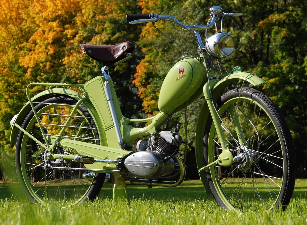 Simson SR 1 from 1955, this was the very beginning of 50 ccm motorcycle production by Simson in the GDR. Completely oiginal condition.